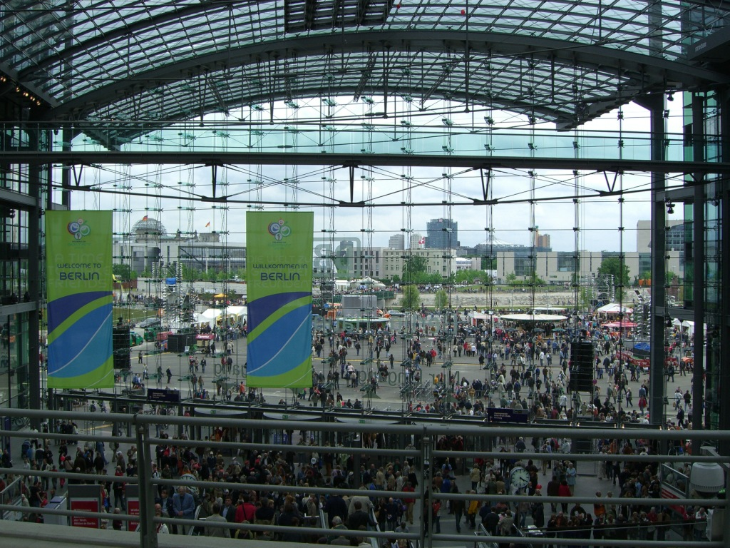 southern entrance area of the Berlin "Hauptbahnhof" (central station)